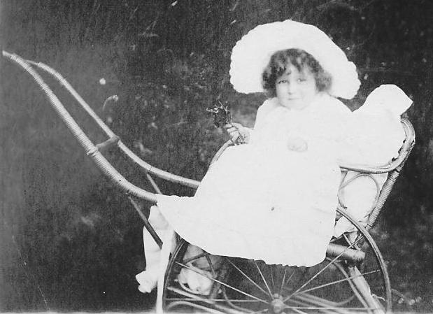 The contributor's mother in a pram in Assam, India in about 1902 -- scanned by the contributor.